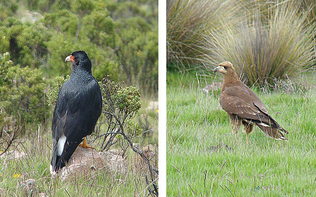 At over 4000 m. elevation in the Yauyos Range of Peru. Juvenile on right.